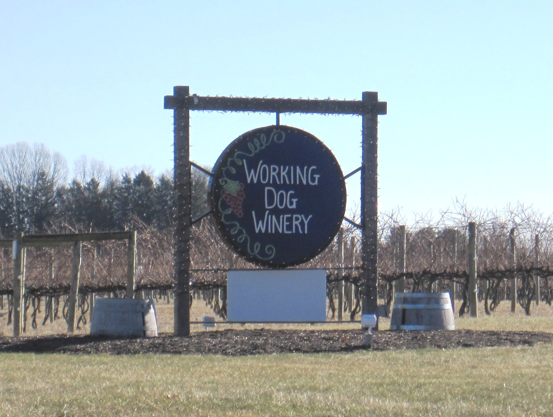 Sign outside of the Working Dog Winery located in East Windsor and Robbinsville Townships, New Jersey. Location is on Windsor-Perrineville Road just east of Allens Road.